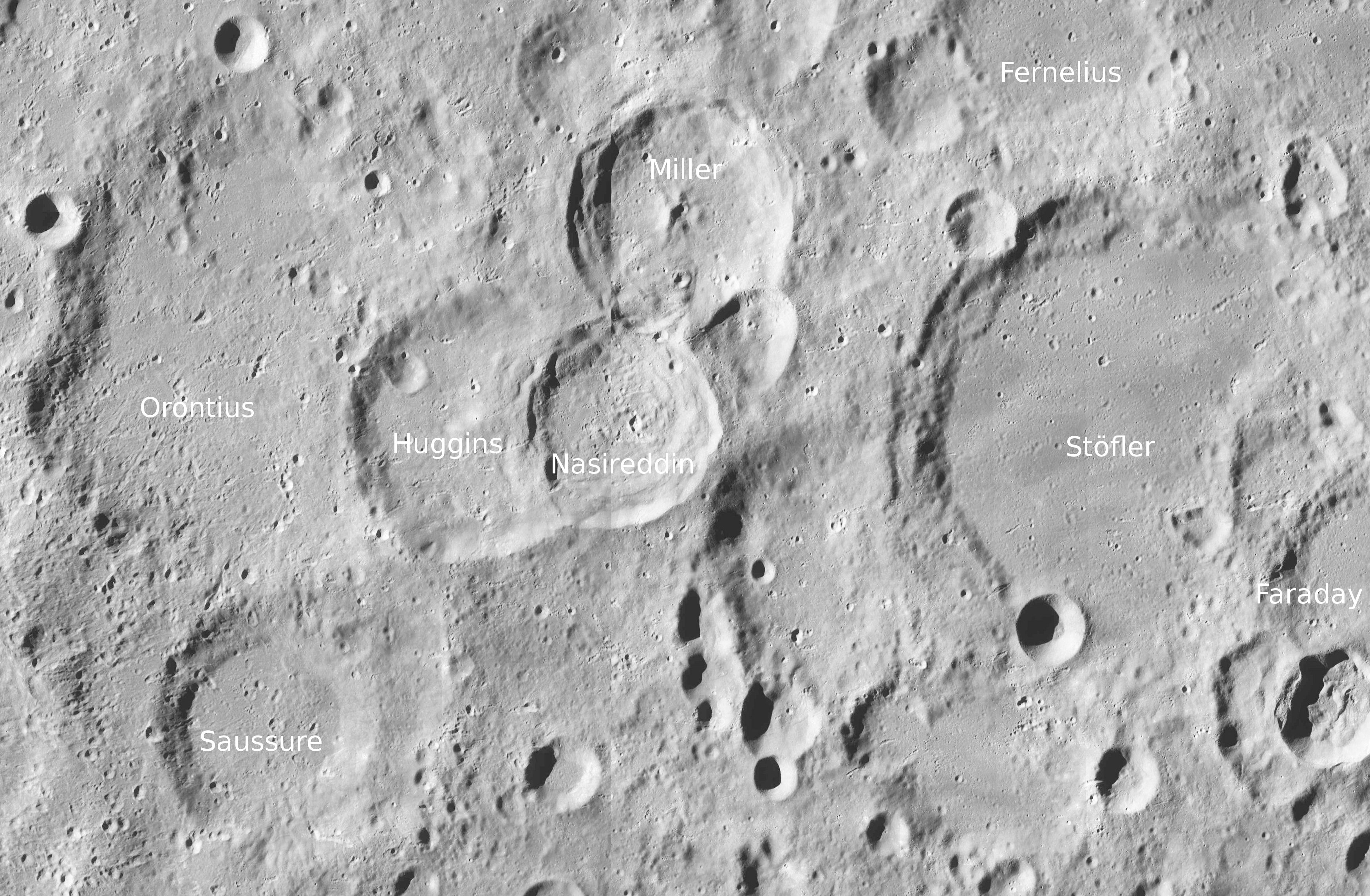 Craters Orontius, Saussure, Huggins, Nasireddin, Miller, Stöfler and Fernelius (detail of LRO - WAC global moon mosaic; Mercator projection)